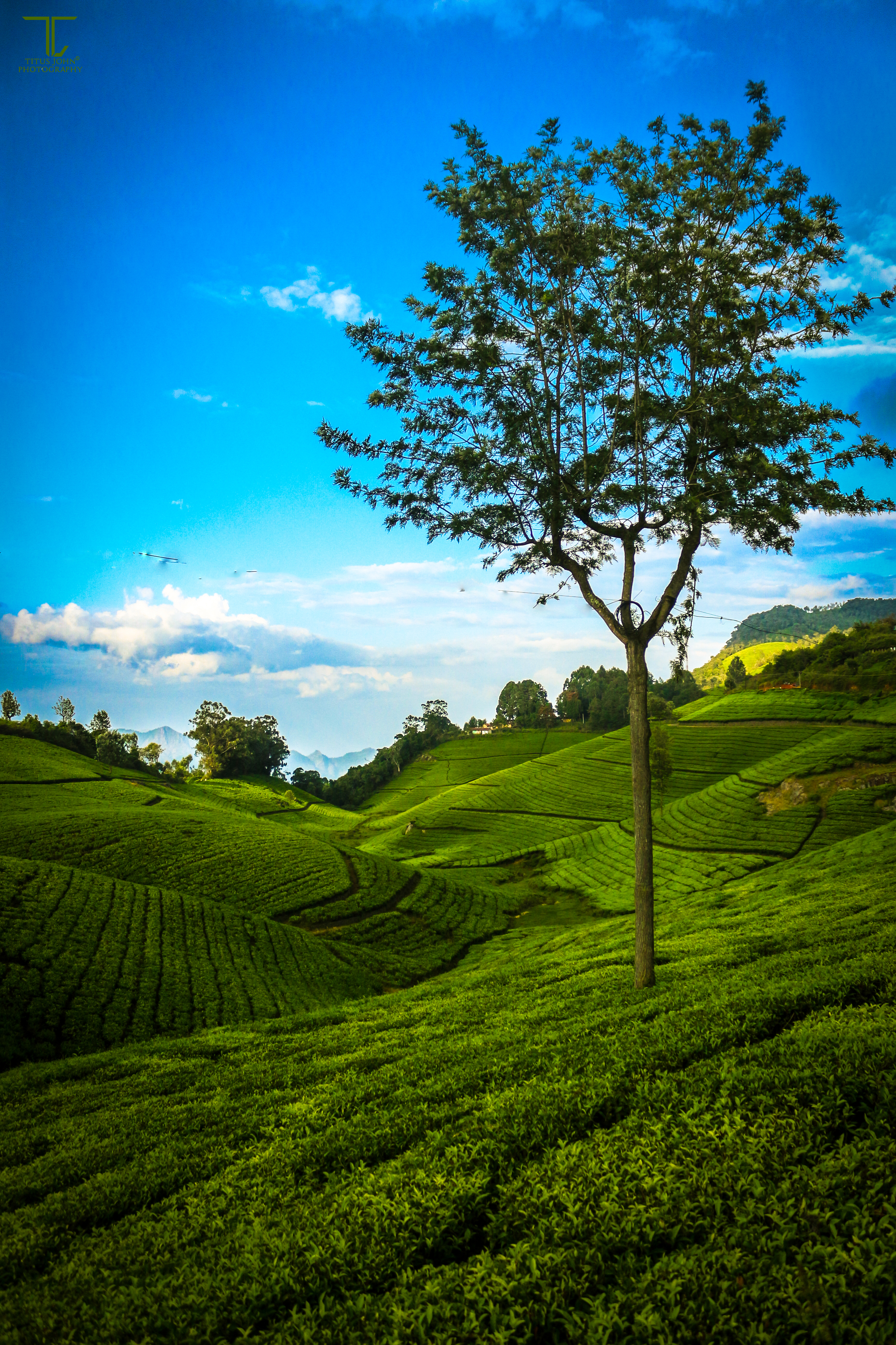 Beautiful Green Tea Estates In Coonoor, Nilgiris